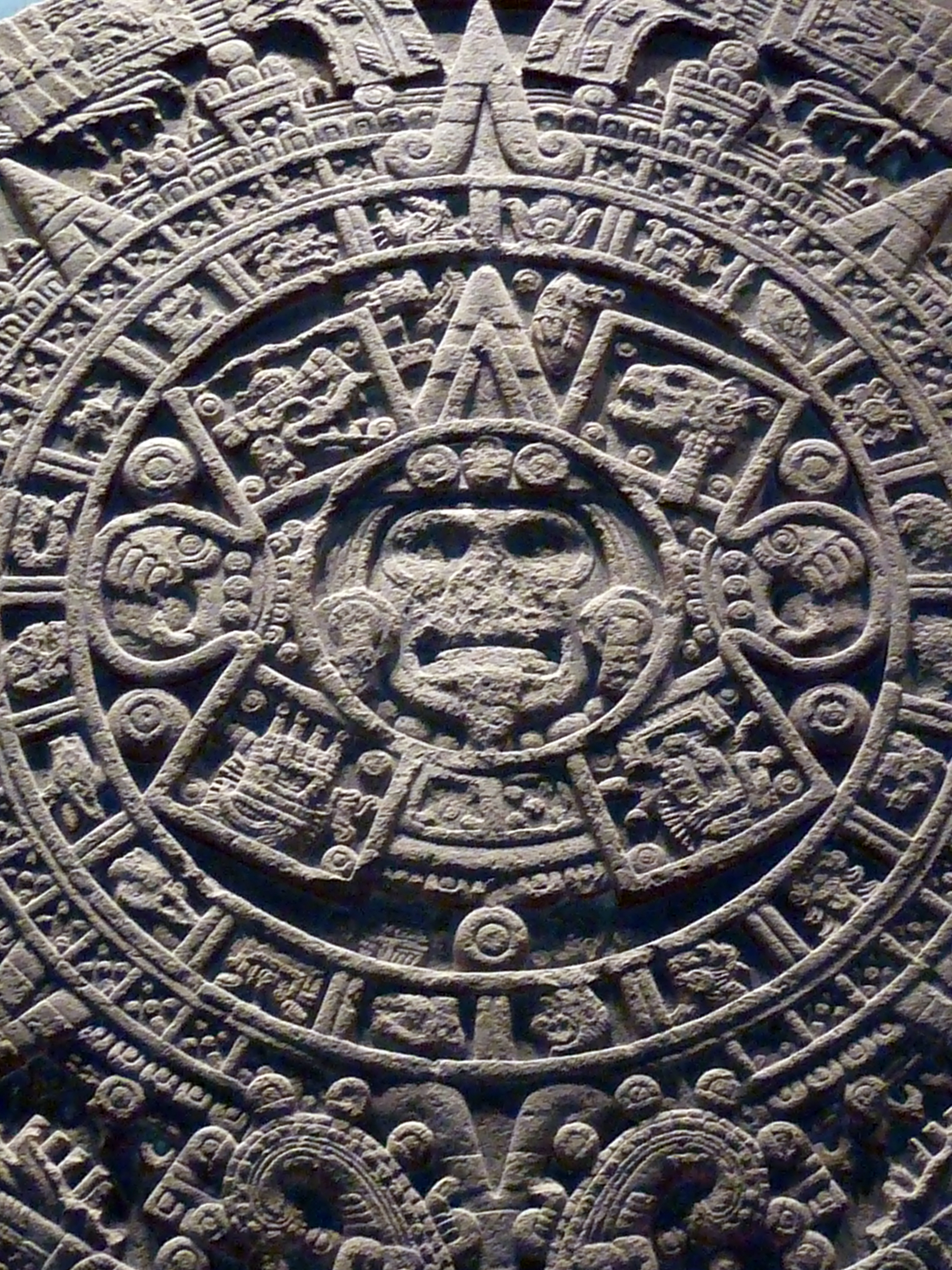 Day 2: Mexico City The Aztec calendar stone, Mexica sun stone, Stone of the Sun (Piedra del Sol), or Stone of the Five Eras, is a large monolithic sculpture that was excavated in the Zócalo, Mexico City's main square, on 17 December 1790. It was discovered whilst Mexico City Cathedral was being repaired